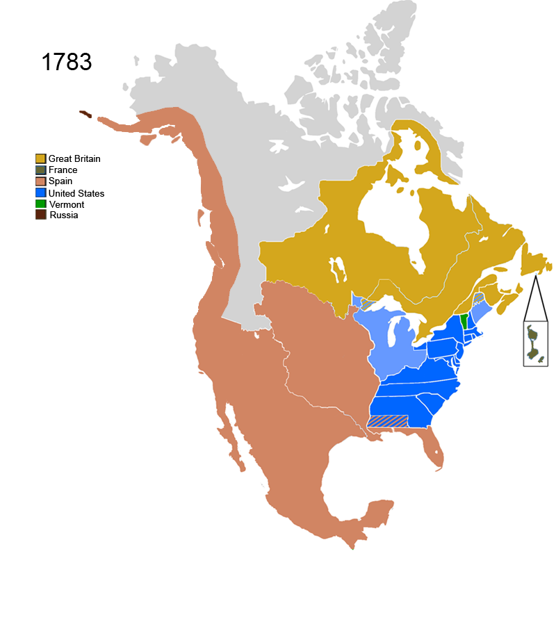 Non-Native Nations claims, not control, over countries now under the NAFTA Treaty